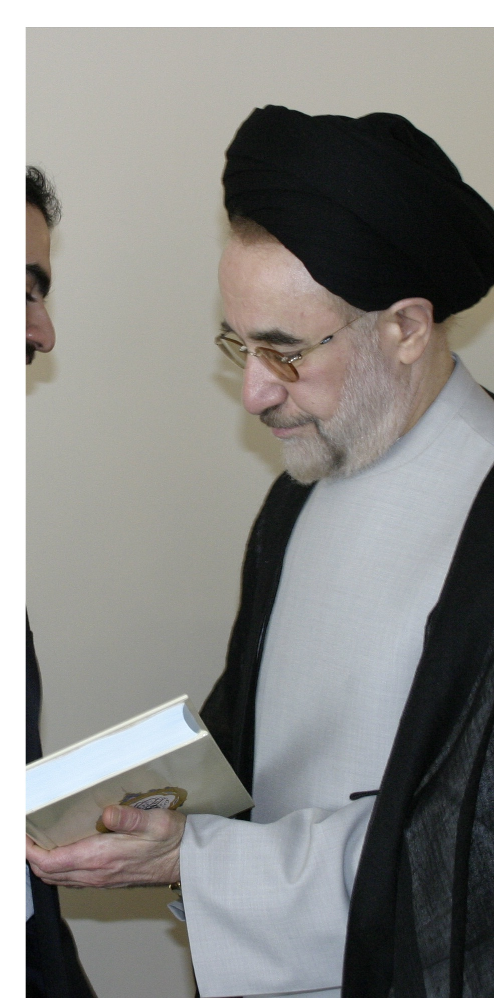 Mohammad Khatami former Iranian president